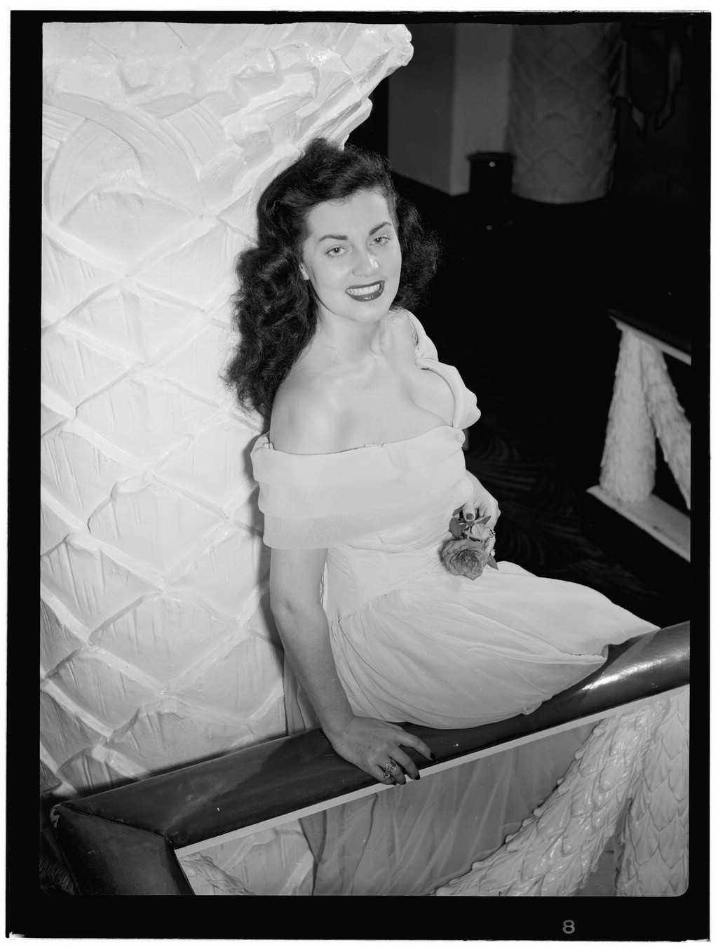 Gottlieb, William P., 1917-, photographer. Betty George, Copacabana(?), New York, N.Y., ca. Sept. 1947] 1 negative : b&w ; 3 1/4 x 4 1/4 in. Notes: Gottlieb Collection Assignment No. 074 Purchase William P. Gottlieb Forms part of: William P. Gottlieb Collection (Library of Congress). Subjects: George, Betty Women jazz musicians--1940-1950. Jazz singers--1940-1950. Format: Portrait photographs--1940-1950. Film negatives--1940-1950. Rights Info: Mr. Gottlieb has dedicated these works to the public domain, but rights of privacy and publicity may apply. Repository: (negative) Library of Congress, Prints & Photographs Division, Washington D.C. 20540 USA, Part Of: William P. Gottlieb Collection (DLC) 99-401005 General information about the Gottlieb Collection is available at Persistent URL: Call Number: LC-GLB23- 1184